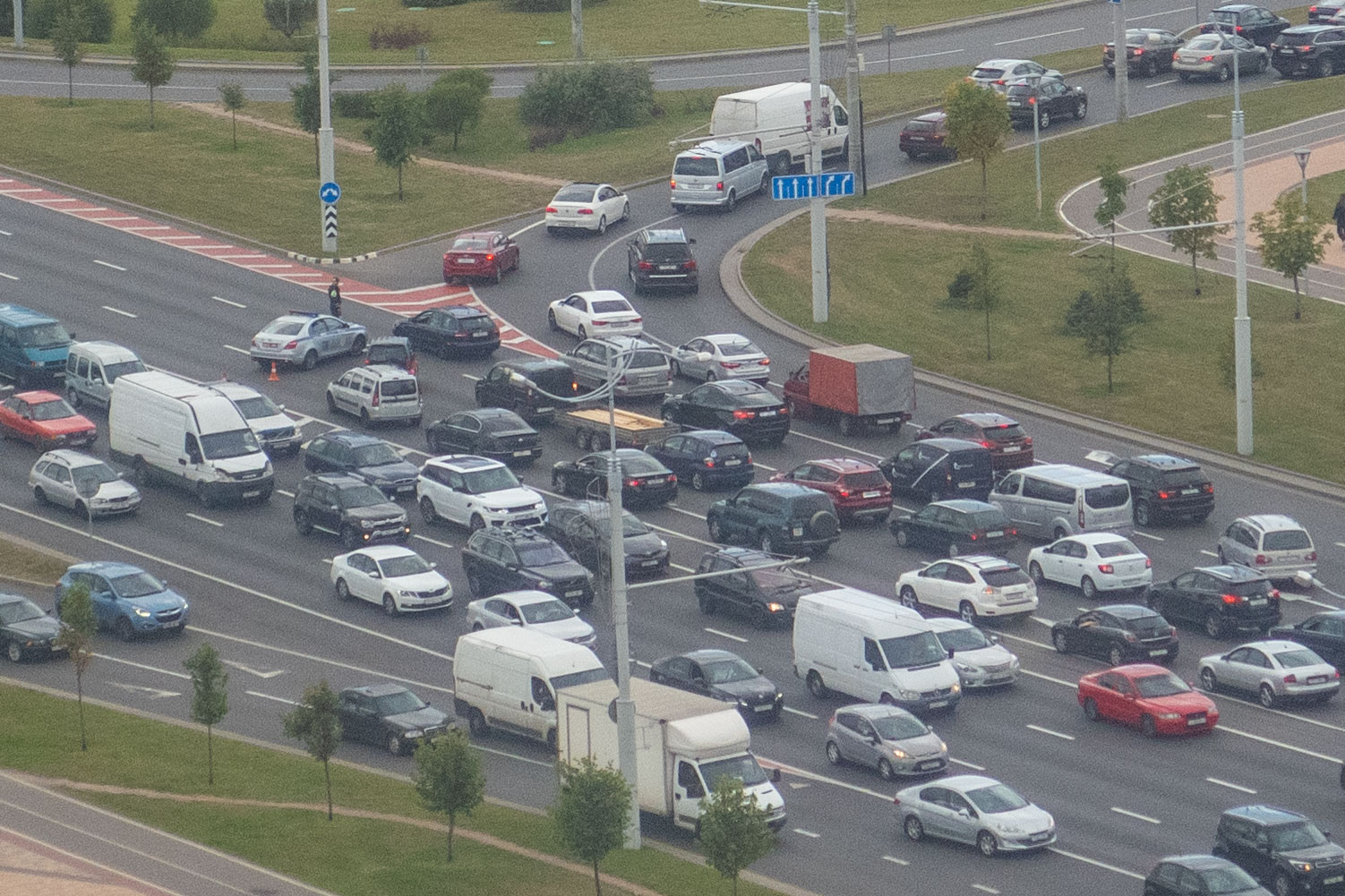 Traffic police closing Niezaliežnasci avenue because of mass protests. Minsk, Belarus